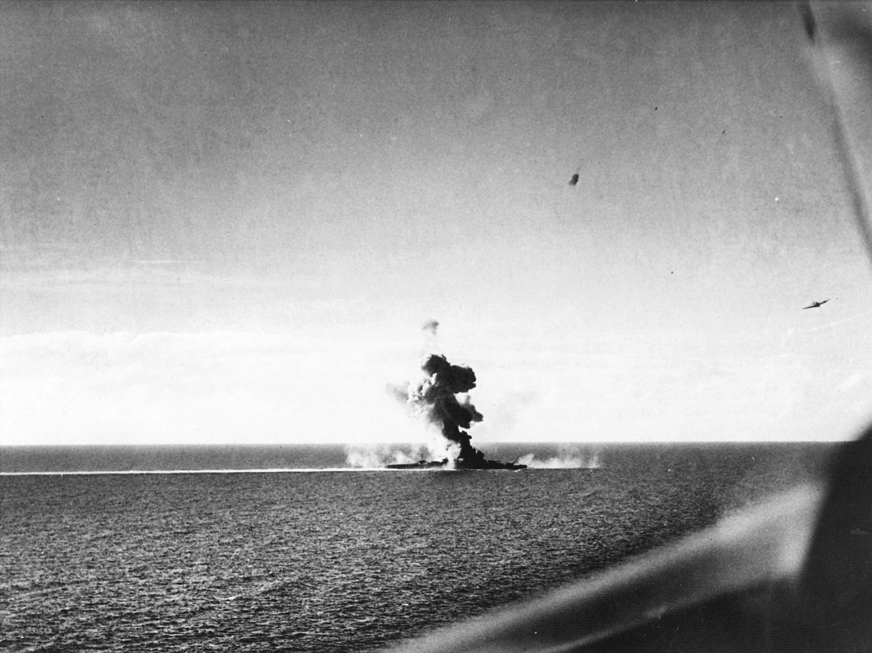 A Japanese Mogami-class cruiser under attack by U.S. Navy aircraft of Carrier Air Group 7 (CVG-7) following the Battle of Leyte Gulf, 26 October 1944. A Curtiss SB2C-3 Helldiver of Bombing Squadron 7 (VB-7) is visible in the upper right of the photograph. The cruiser is most probably Kumano which had her bow blown off by a torpedo launched from the destroyer USS Johnston (DD-557) during the Battle off Samar on 25 October. She was attacked by aircraft of CVG-7 from USS Hancock (CV-19) while retreating through the Sibuyan Sea and was struck by three 500 lb (227 kg) bombs. She survived and sailed to Manila Bay for repairs on her bow and all four boilers. On 6 November, she was struck by two torpedoes fired from U.S. submarines and finally sunk by aircraft from USS Ticonderoga (CV-14) on 25 November 1944.